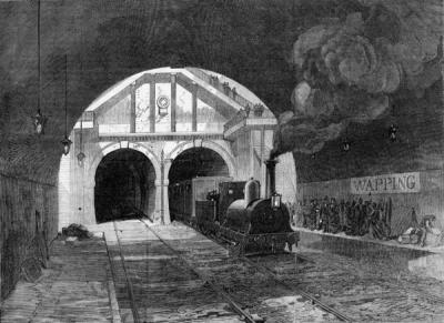 Steam locomotive exiting the Thames Tunnel and arriving at what is now Wapping tube station, London